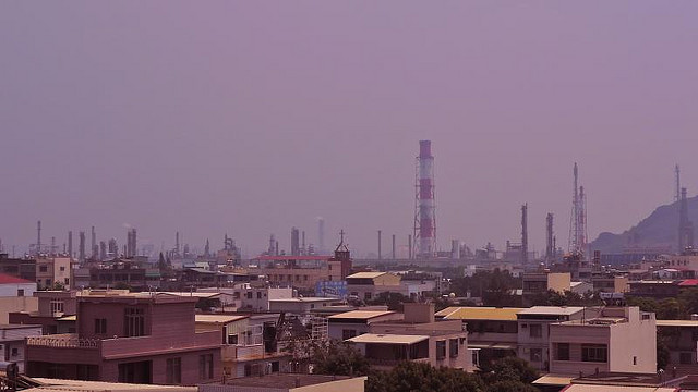 The Kaohsiung Refinery in Nanzih District, Kaohsiung.